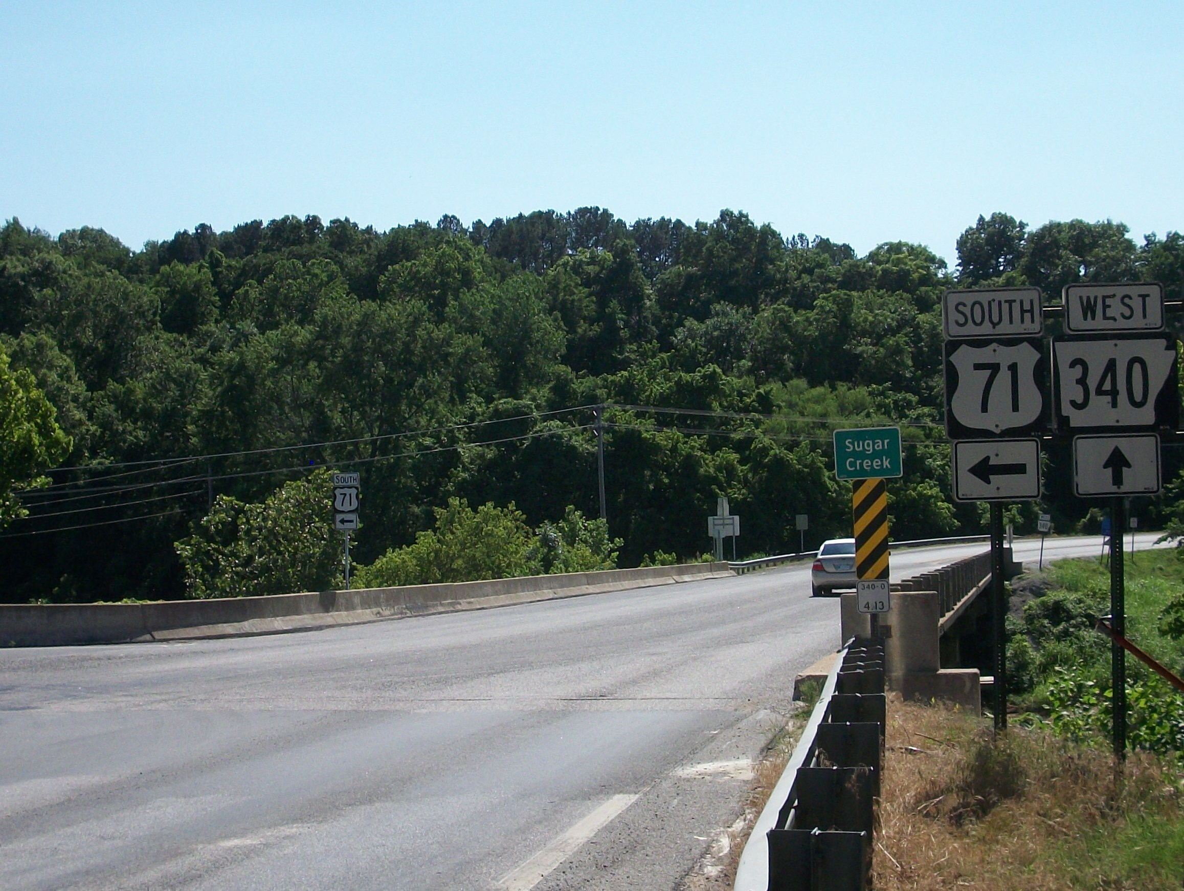 Arkansas Highway 340 in Bella Vista, AR at its junction with US 71. The bridge sign indicates that the road is section 0, which is not correct as of 2010, when AR 340 was one continuous highway (section 1) in the area.